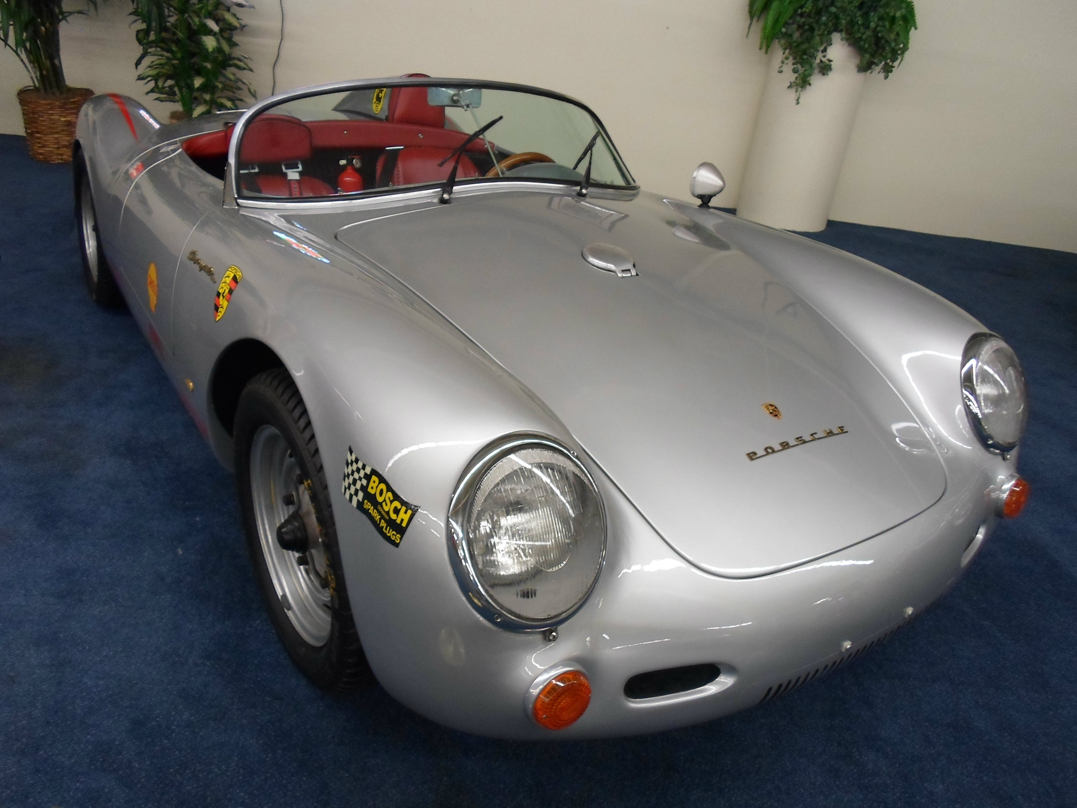 Powered by a 1.6L air cooled Porsche engine with replica was built by Vintage 550 Spyders. They are asking $75k for it.